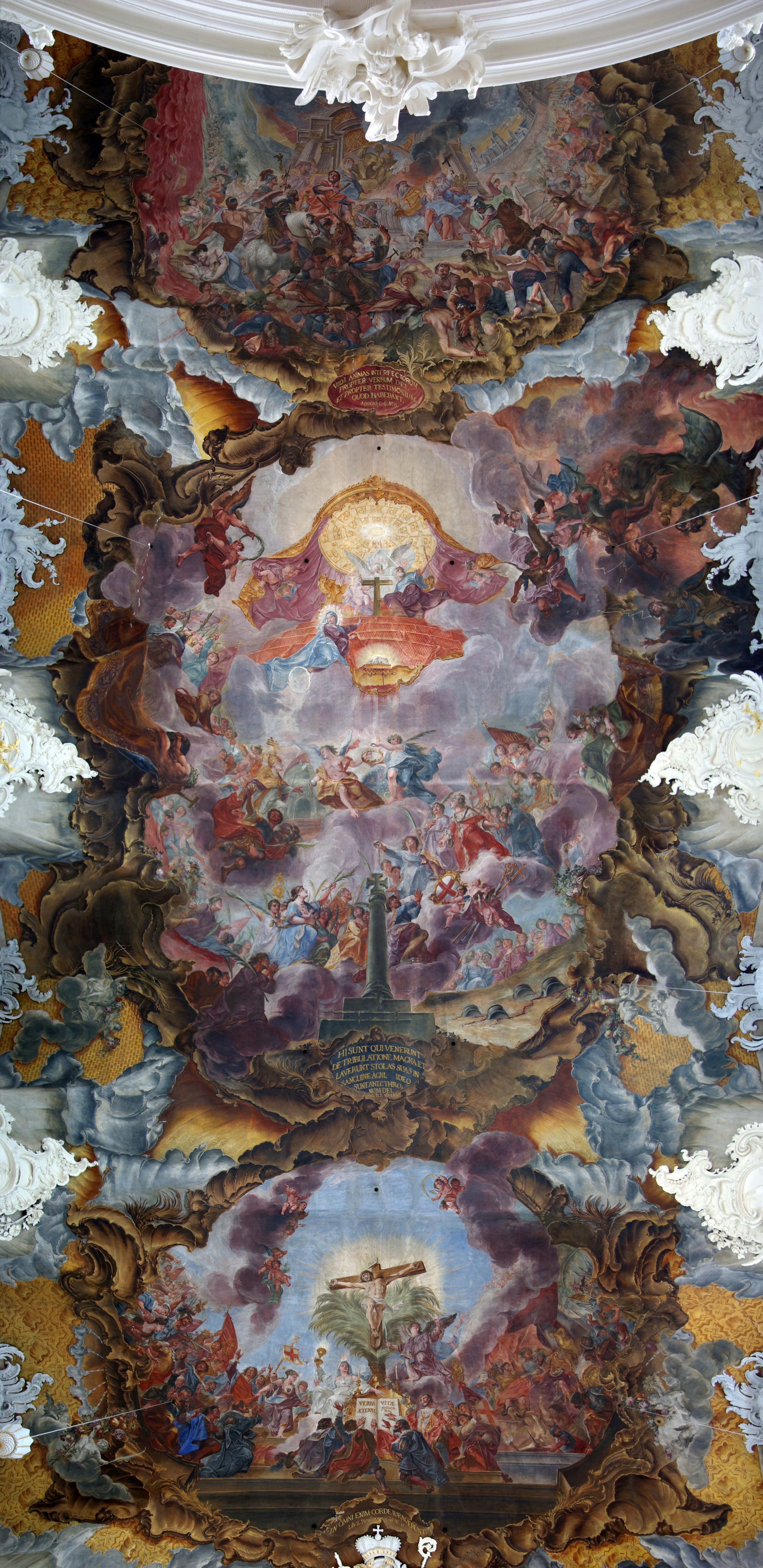 Germany, Trier, Church Sankt Paulin, ceiling fresko by Christoph Thomas Scheffler, stitched from 11 photographs Labels and their translations: "Vidi animas interfectorum propter verbum dei, et propter testimonium quod habebant Apocal. C6 V9 (I saw underneath the altar the souls of them that had been slain for the word of God, and for the testimony which they held.)"— Revelation 6,9 "Hi sunt qui venerunt de tribulatione magna et laverunt stolas suas in sanguine agni. Ideo sunt ante thronum dei. Apoc C7 V 14&15 (These are they who come out of the great tribulation, and have washed their robes, and have made them white in the blood of the Lamb. Therefore are they before the throne of God.)"— Revelation 7,14+15 "Verba Aeternae Vitae Joan C6 V 69 (words of life eternal)"— John 6,69 "In omni enim corde iuraverunt. Lib 2. Paralipome C 15 V15 (They have sworn with all their hearts.)"— Chronicles, Book 2, Ch 15 V 15